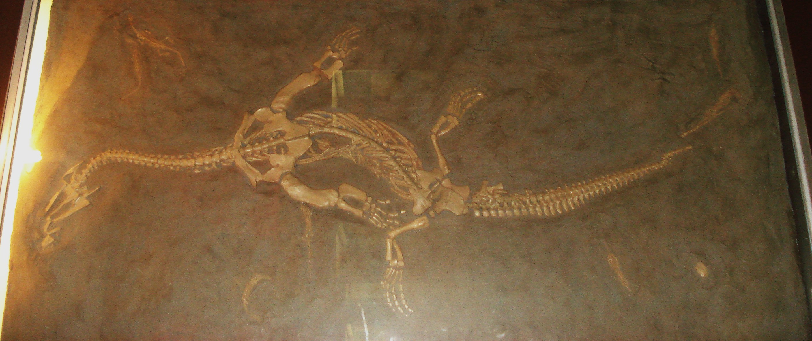 Fossil of Ceresiosaurus calcagnii, an extinct reptile